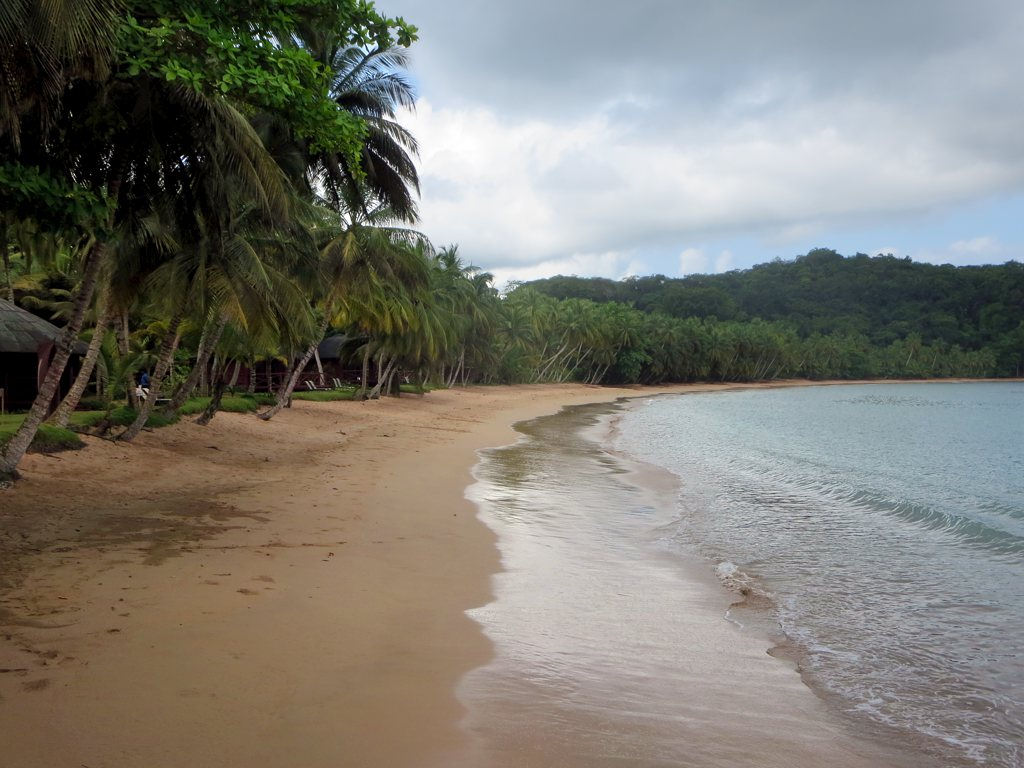 Palm fringed Praia de Coco is favored by swimmers at Bom Bom Island Resort on Principe Island, São Tomé and Príncipe.